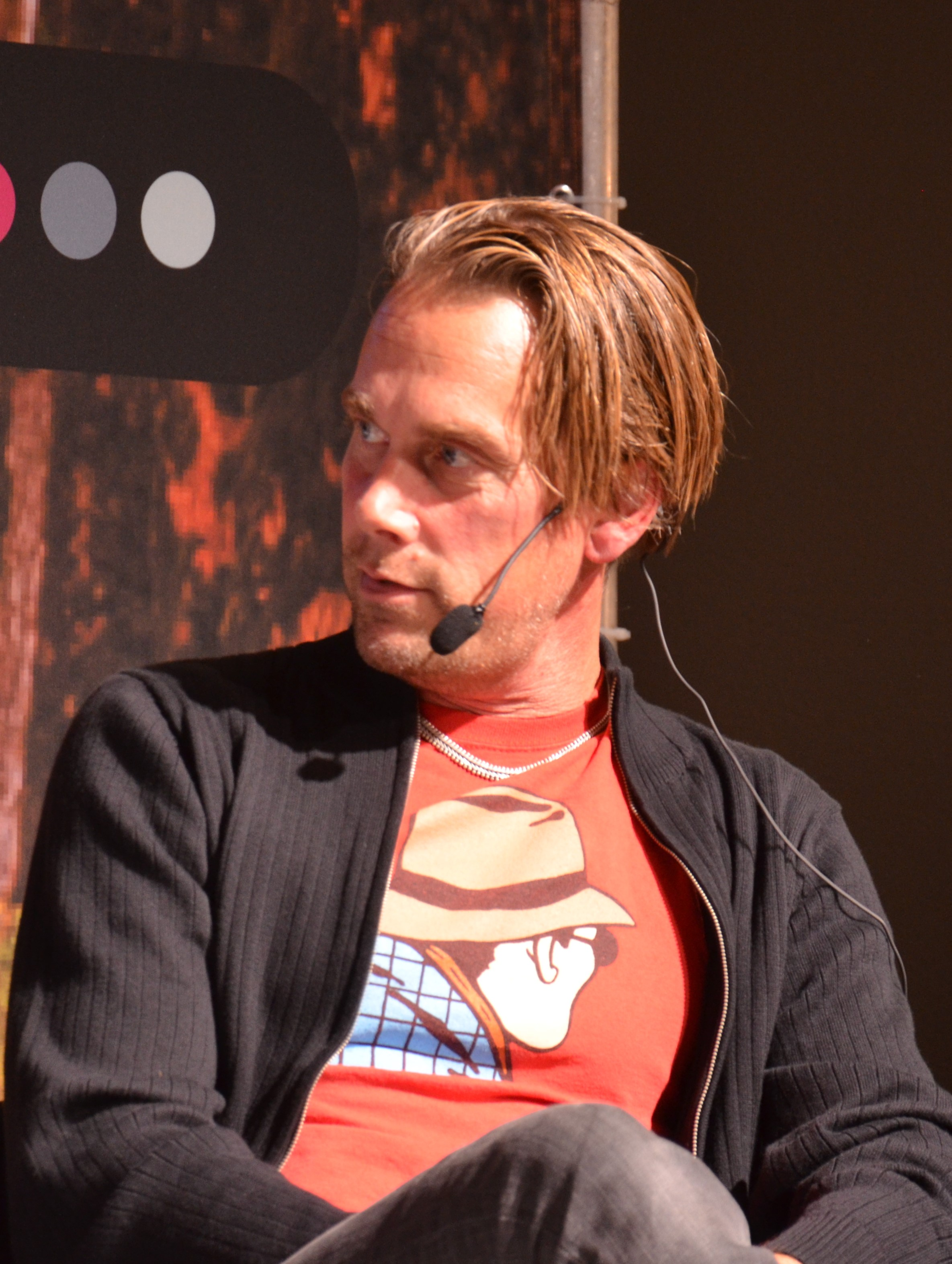 Dan Jönsson